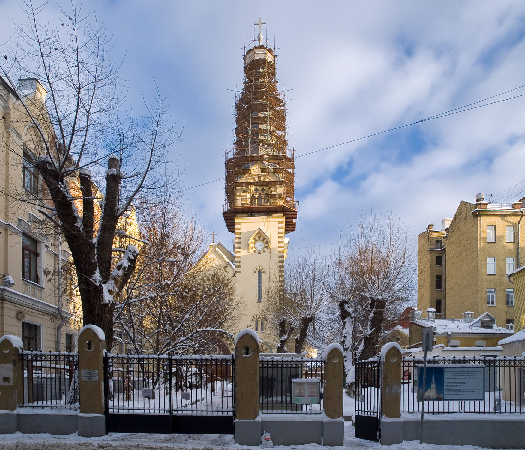 Lutheran cathedral in Moscow.